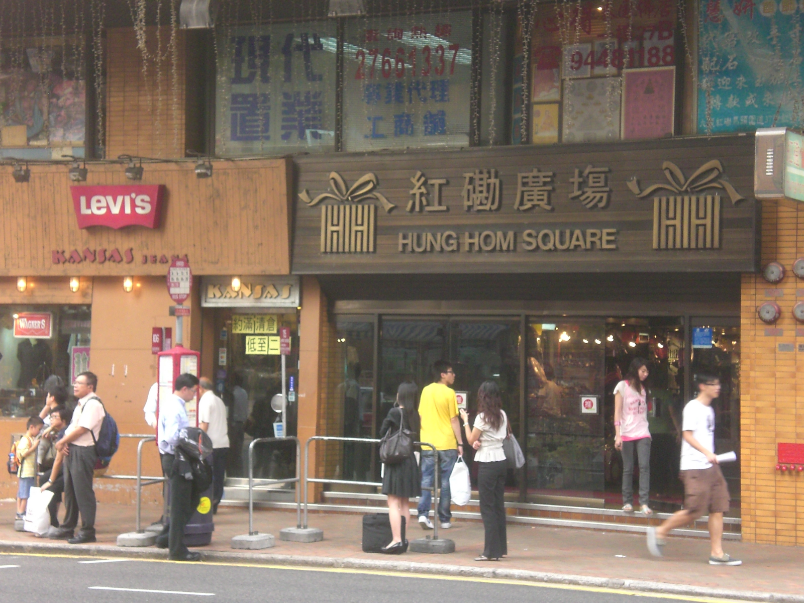 紅磡廣場 馬頭圍道